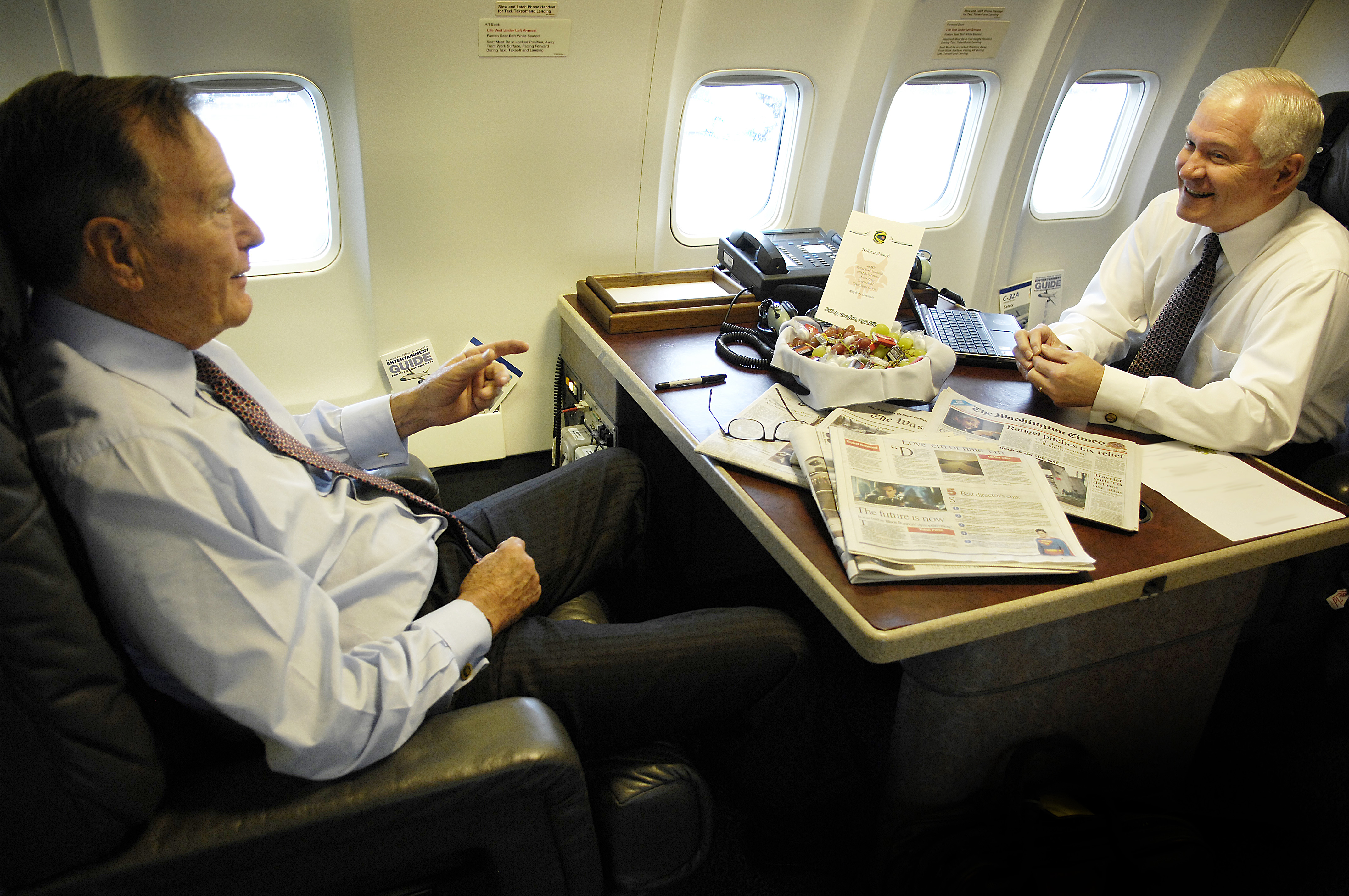 Secretary of Defense Robert M. Gates shares a laugh with former president George H. W. Bush, onboard a C-32 Aircraft to College Station, Texas. Bush will present Gates with the George Bush Award for Excellence in Public Service during a ceremony at Reed Arena, Oct.26.